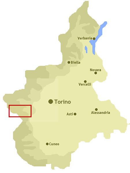 Position of the valley Val Chisone